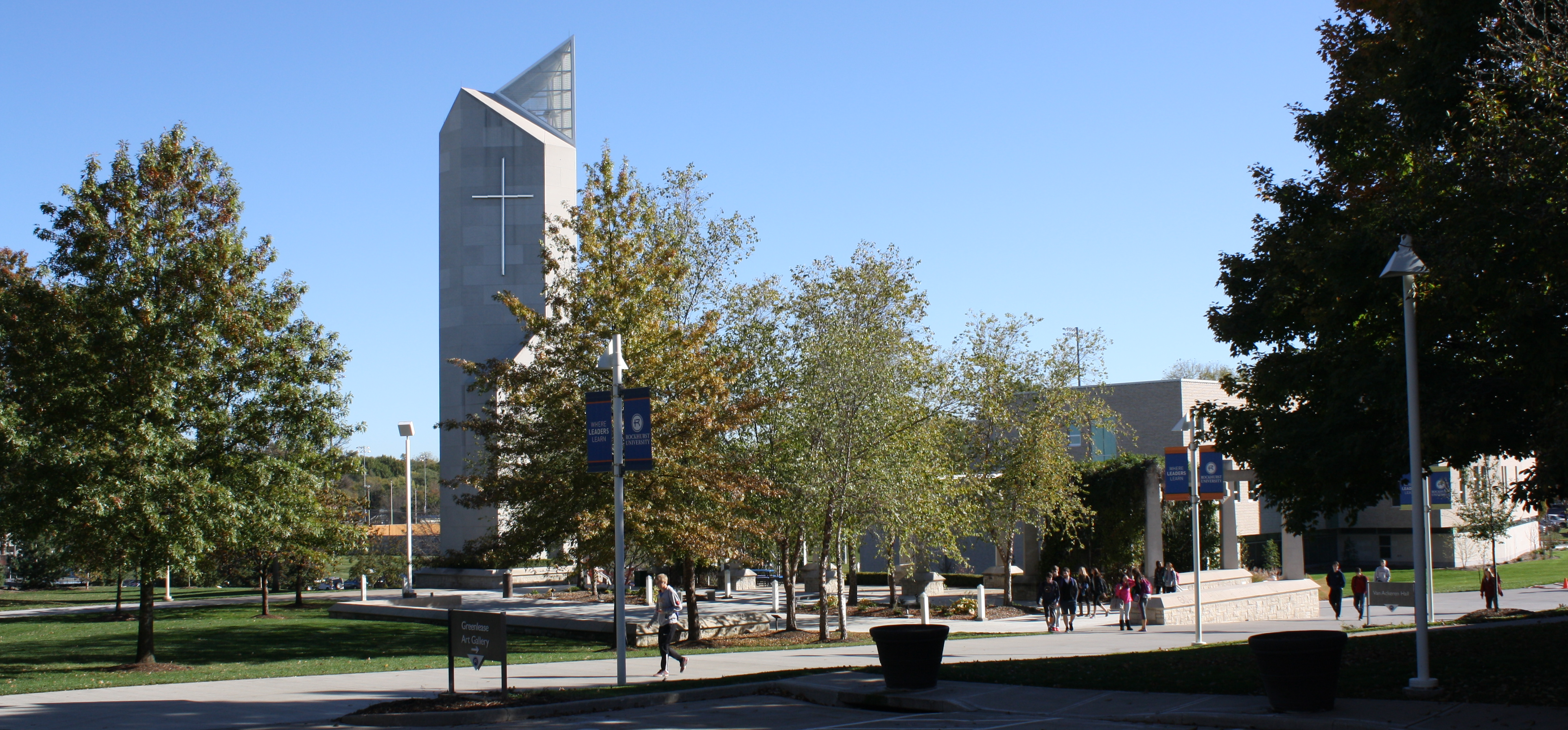 Rockhurst University tower near pagoda, center of campus